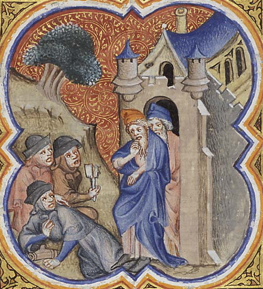 Four lepers bring the news to the guards at the gate of Samaria; by the illustrator of Petrus Comestor's 'Bible Historiale', France, 1372; Miniature; at the Museum Meermanno Westreenianum, The Hague Notes: From Petrus Comestor's "Bible Historiale" (manuscript "Den Haag, MMW, 10 B 23")